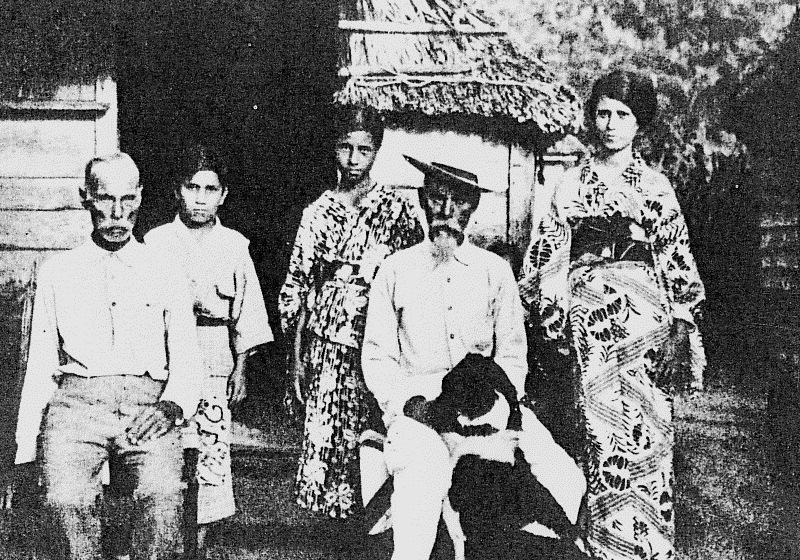 Oubeikei-Tomin (Savory Family) in the first half of the 20th century